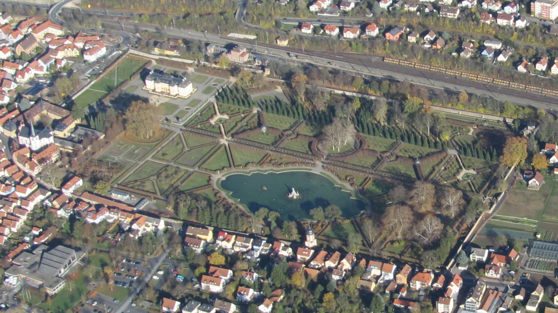 Park an Palace of Veitshoechheim, Germany